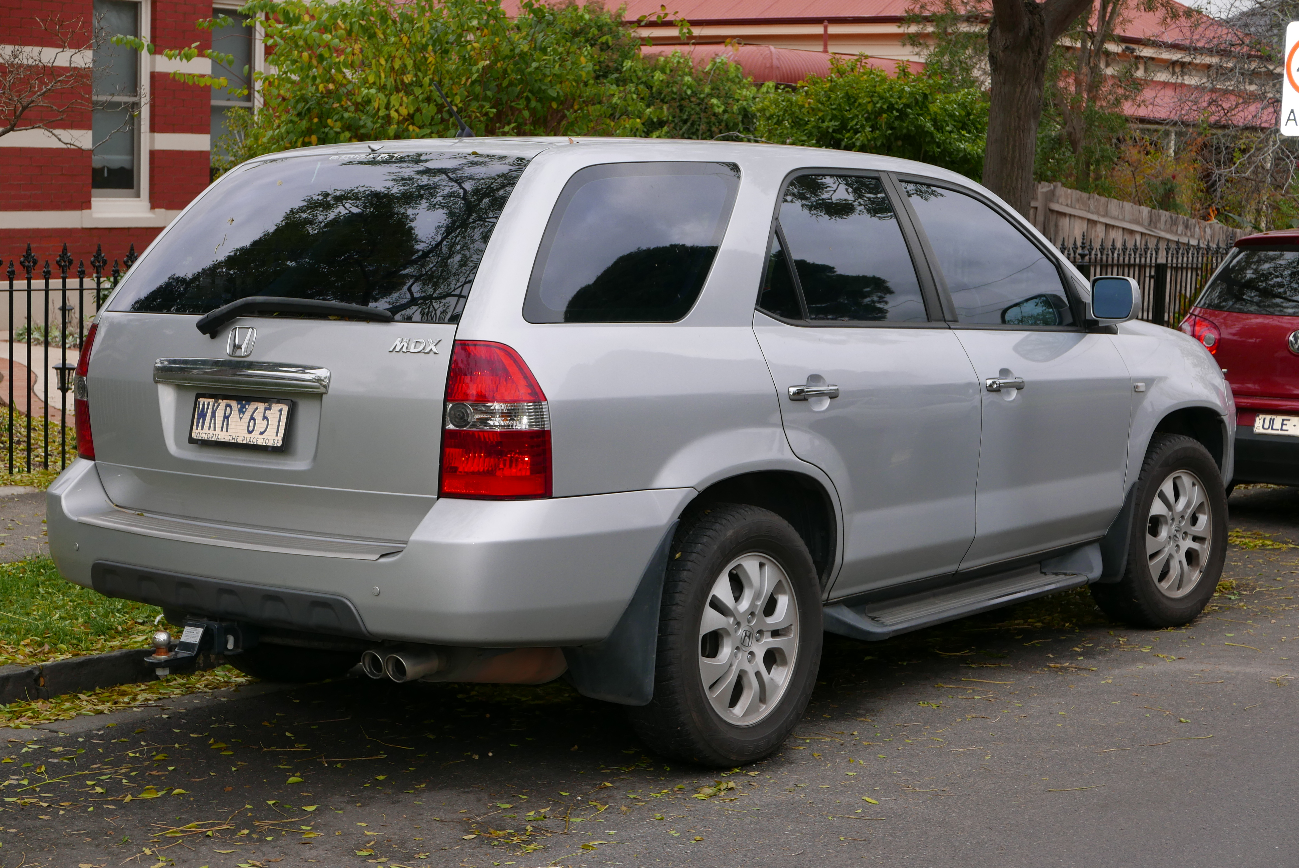 2004 Honda MDX wagon. Photographed in Alphington, Victoria, Australia. Vehicle registration enquiry resultsJurisdictionVictoriaRegistrationWKR651Chassis code2HKYD18643H301478Engine codeJ35A51054070Compliance date2004-02Year of manufacture2004